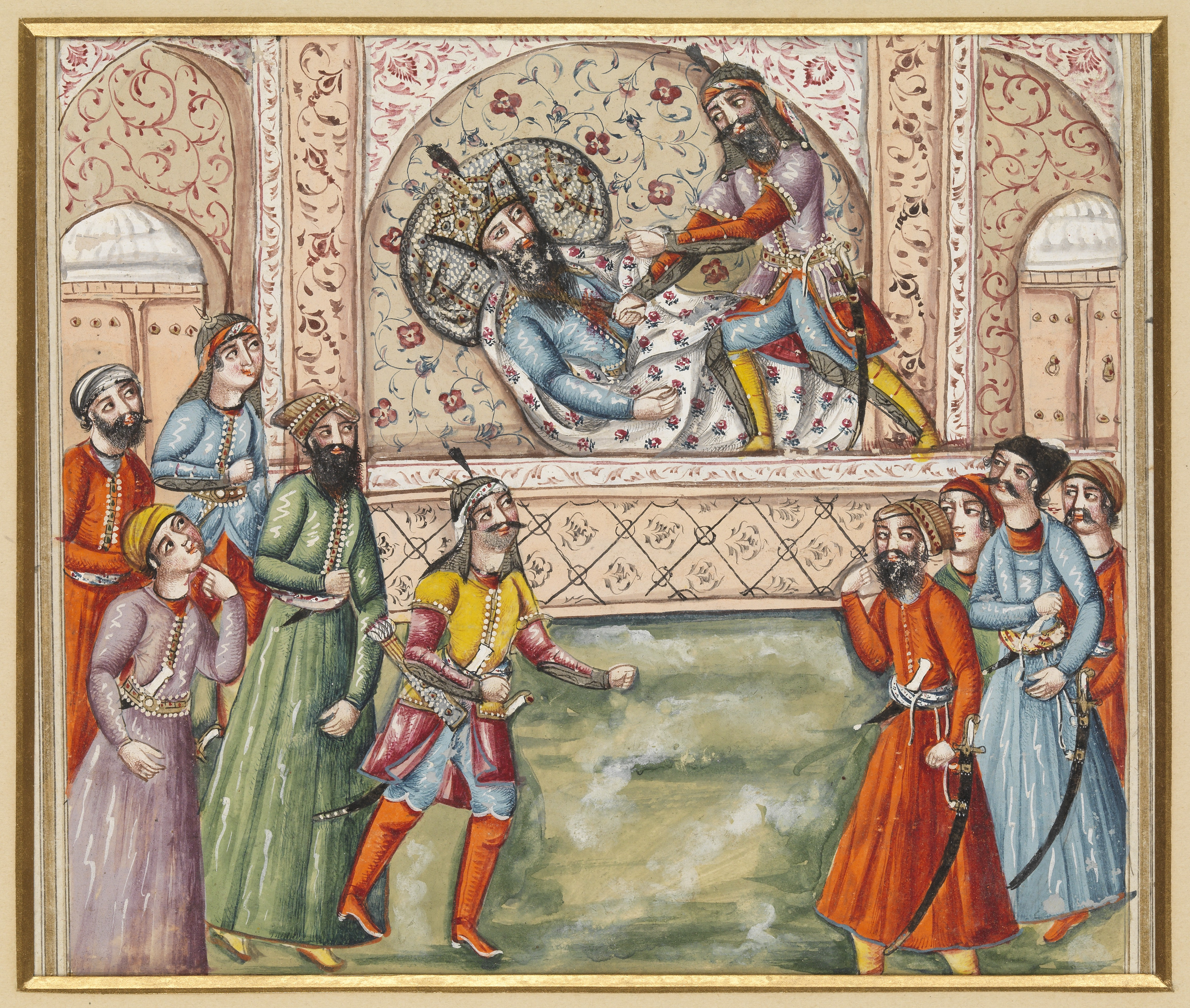 Scene from the Shahnameh. Afrasiyab (standing figure) executes Nauzar (lying down), while two groups look on. Some of the onlookers are armed, two appear to be wearing armour. Asian Collection Keywords: Nauzar; Afrasiyab